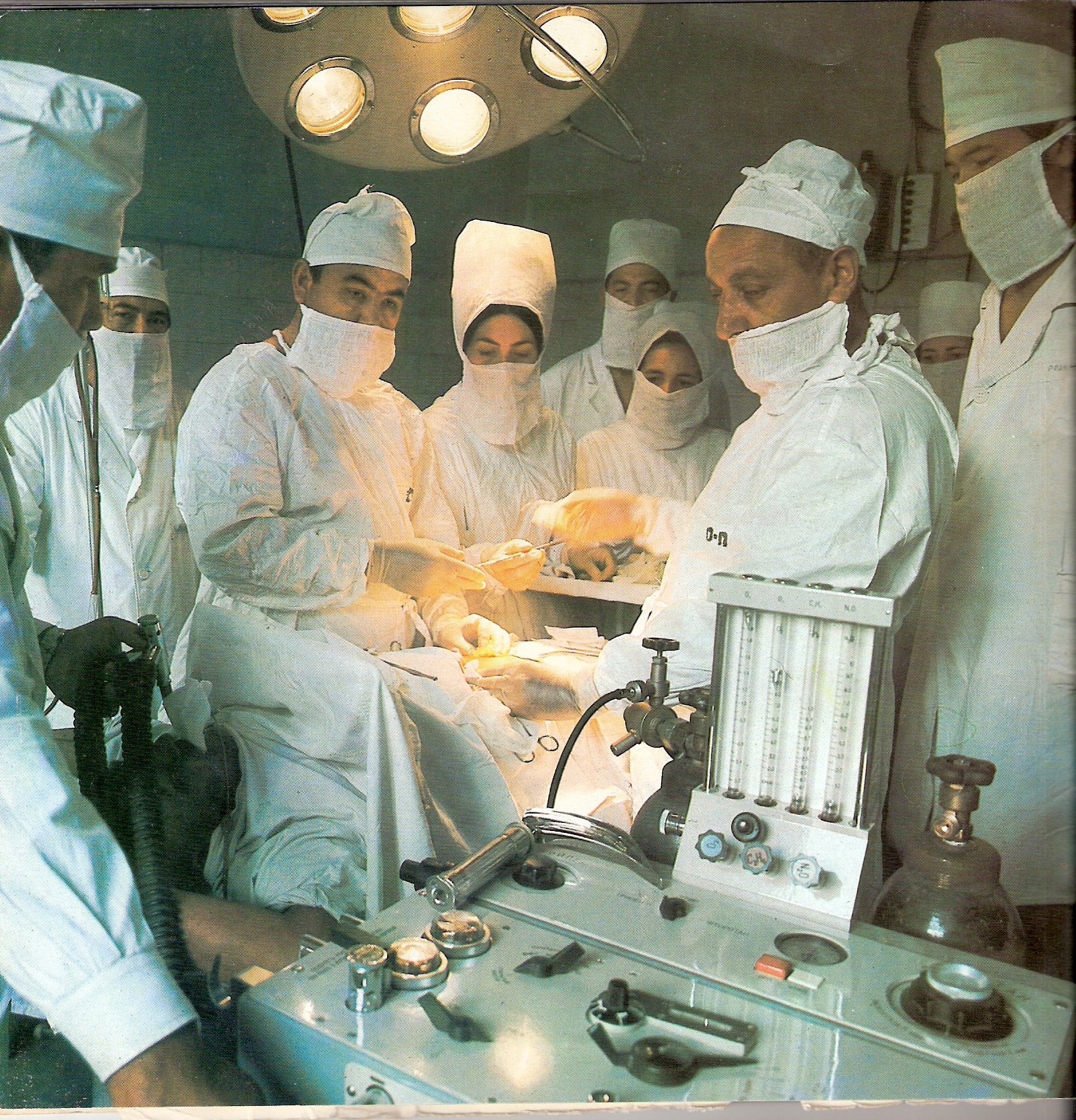 This is a picture of G.S. Grigoryants and his medical staff performing a surgery.